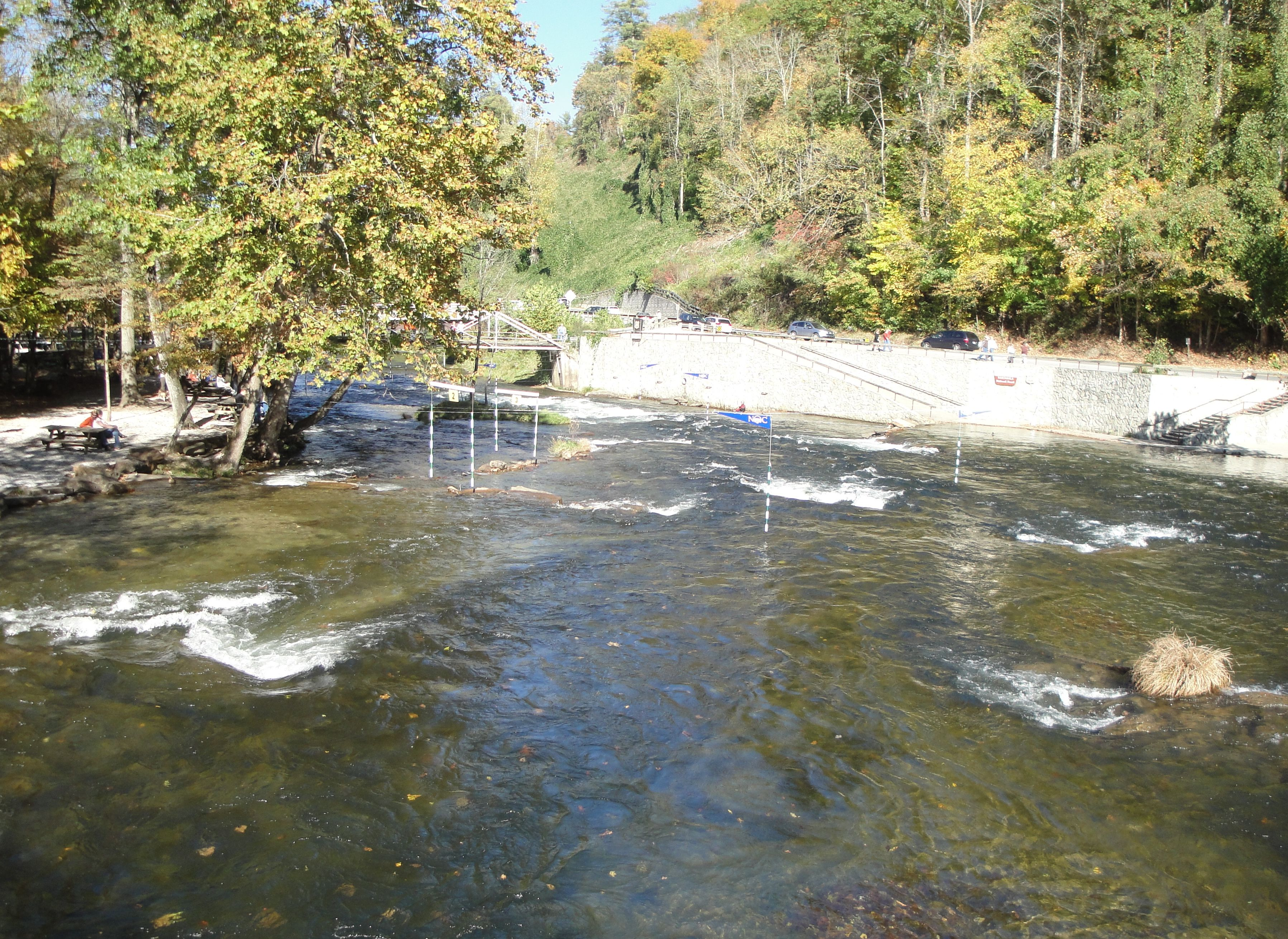 Nantahala Outdoor Center. Photo taken while standing on the Appalachian Trail.